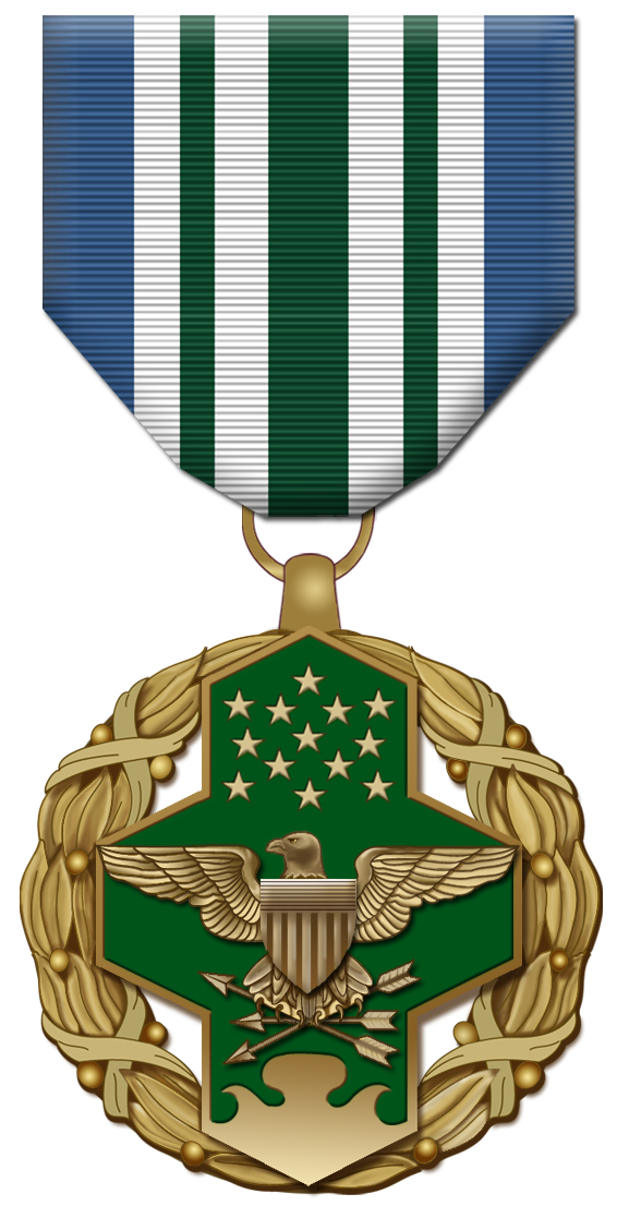 Joint Service Commendation Medal